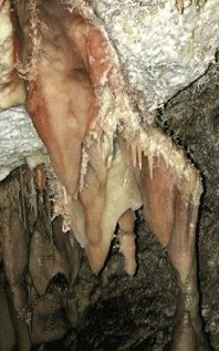 Diverse Speleothems at Camel Room, Timpanogos Cave NM